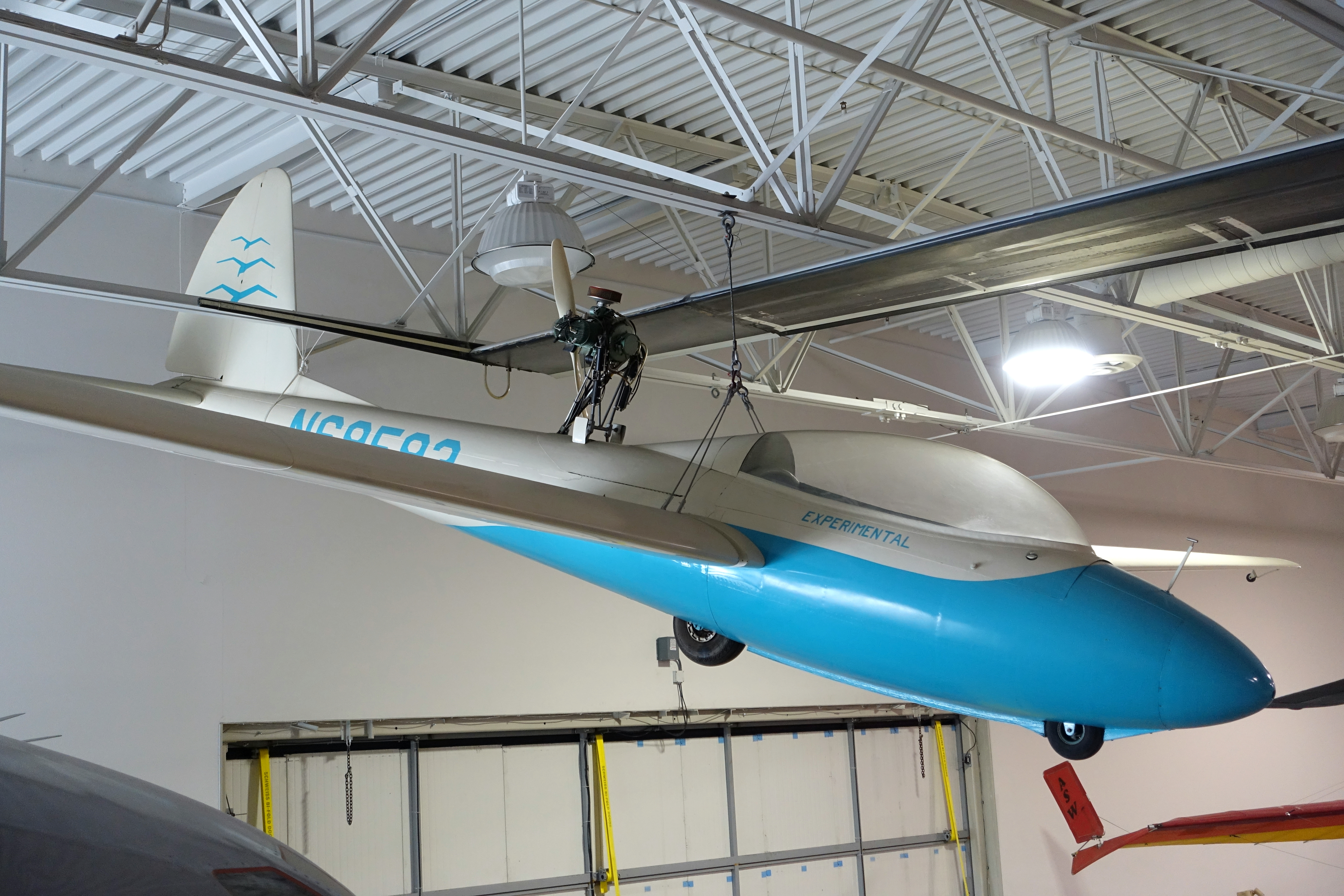 Exhibit in the Hiller Aviation Museum, San Carlos, California, USA.